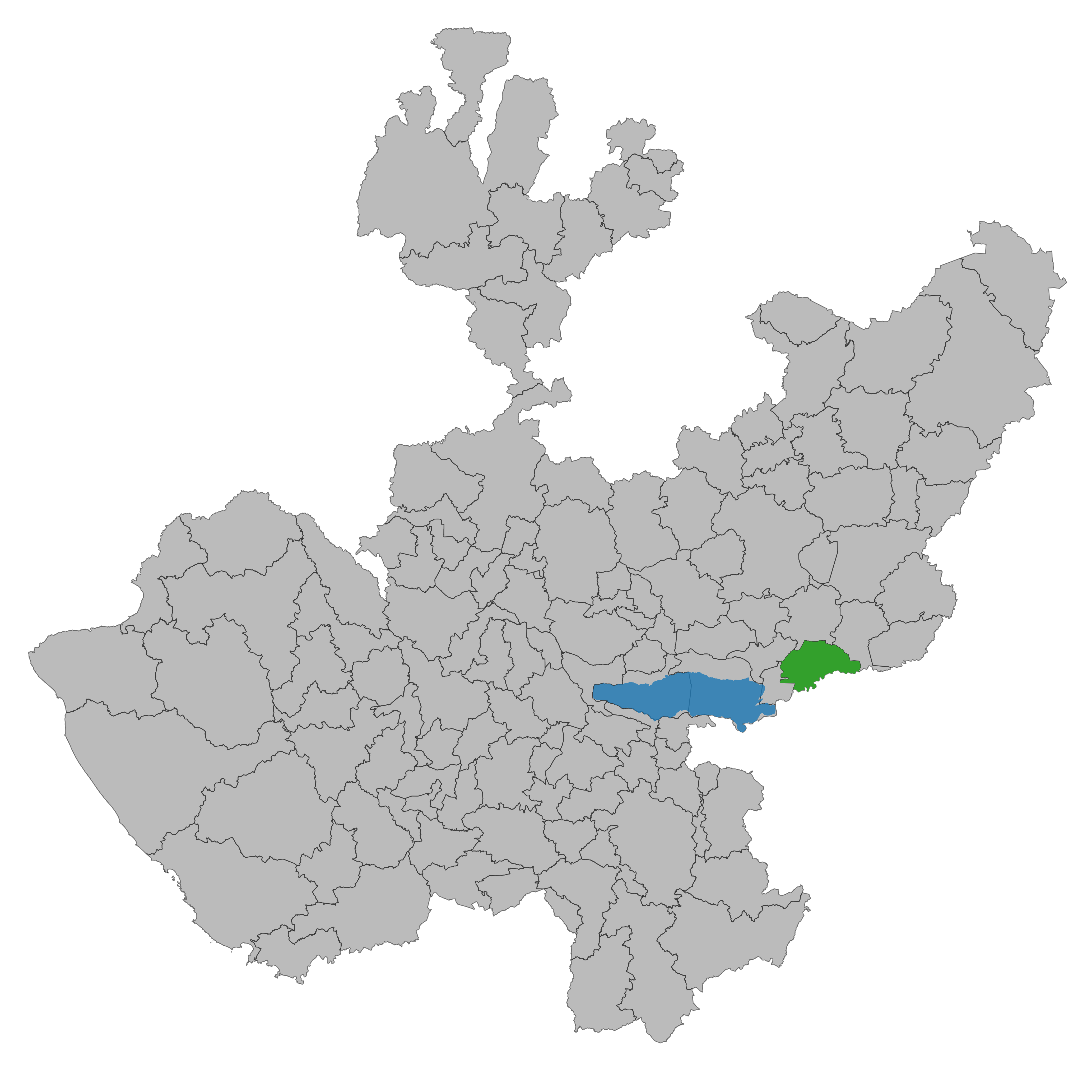 Municipality of Jalisco. Prepared with the software QGIS version 2.8.2 Wien & with information of SCINCE 2010 version 05/2013